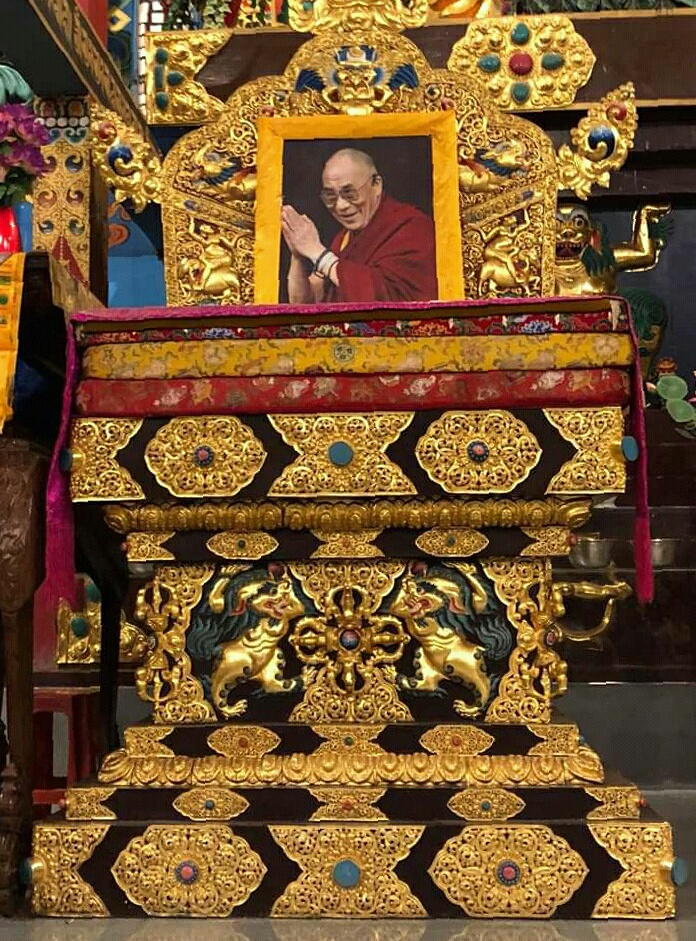 dalai llama at namdroling